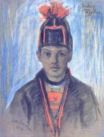 The young sami Anders Fjelne painted by Astri Aasen (1875-1935) during the first Sami congress in Trondheim 1917